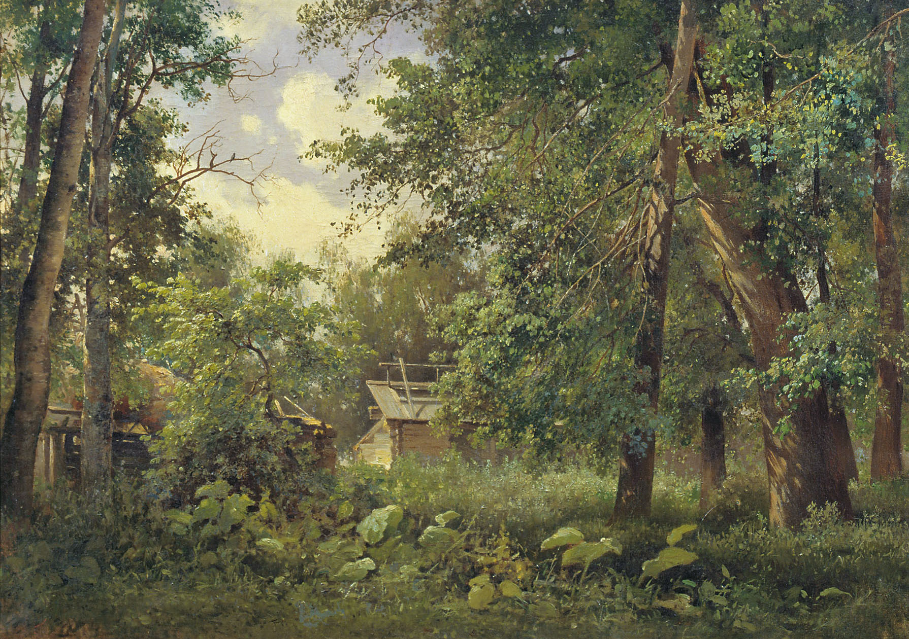 Vladimir Ammont. The Summer Landscape. 1877